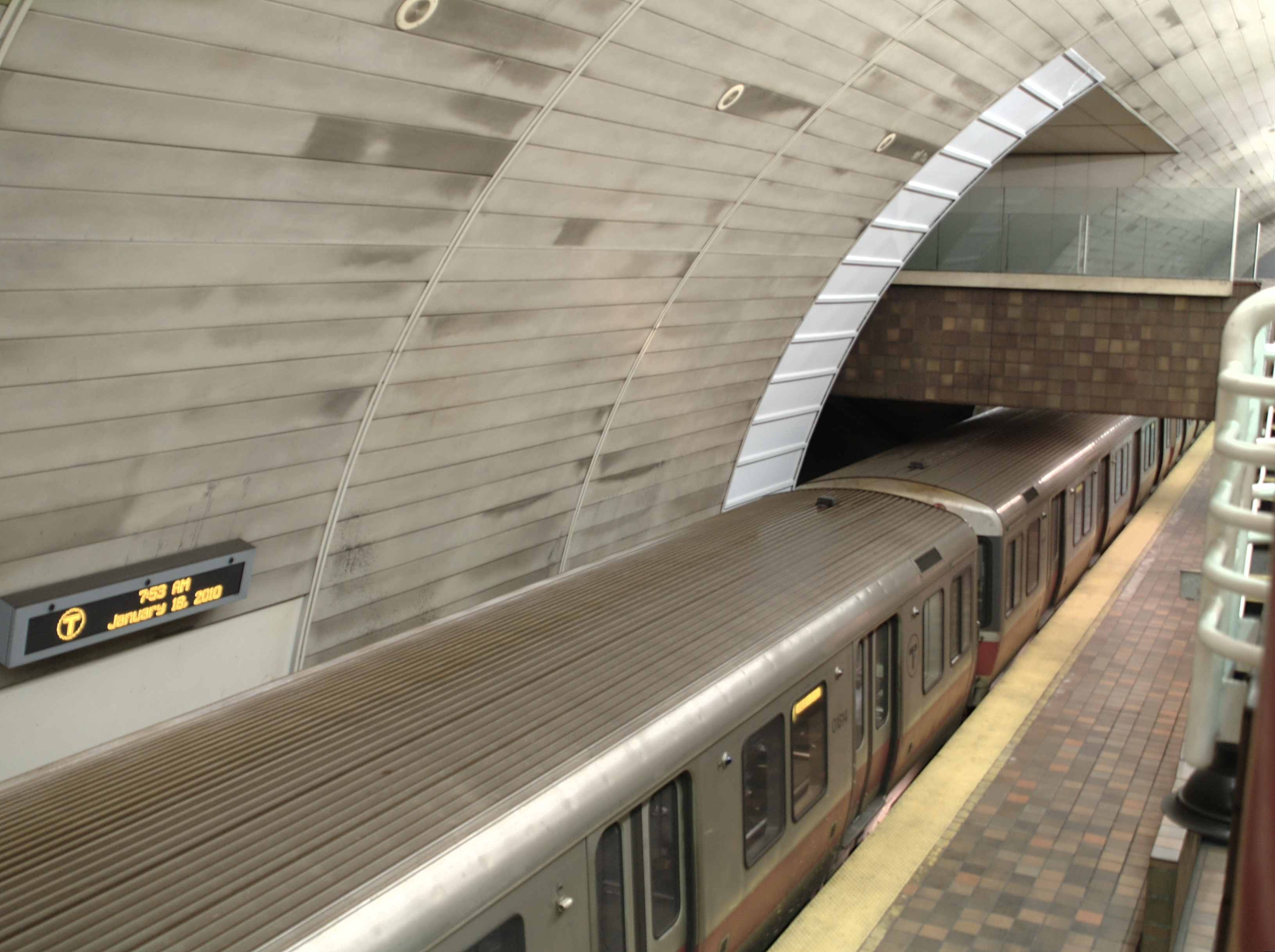 Outbound Red Line train at Porter, viewed from the inbound platform